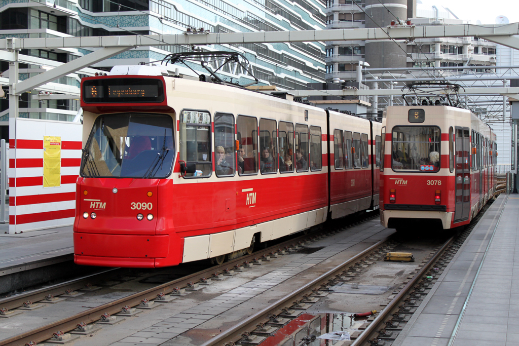 GTL8-II 3090 and 3078 at the The Hague Central Station.